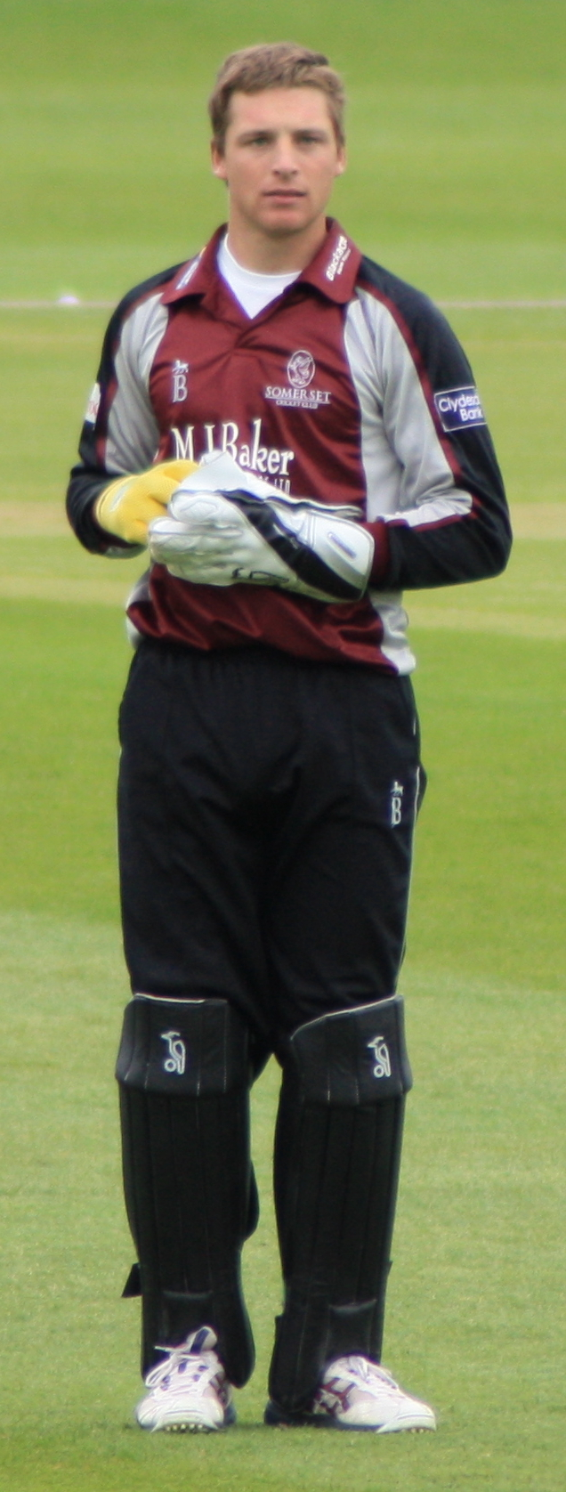 Jos Buttler keeping wicket for Somerset in a CB40 match against the Unicorns at the County Ground, Taunton.